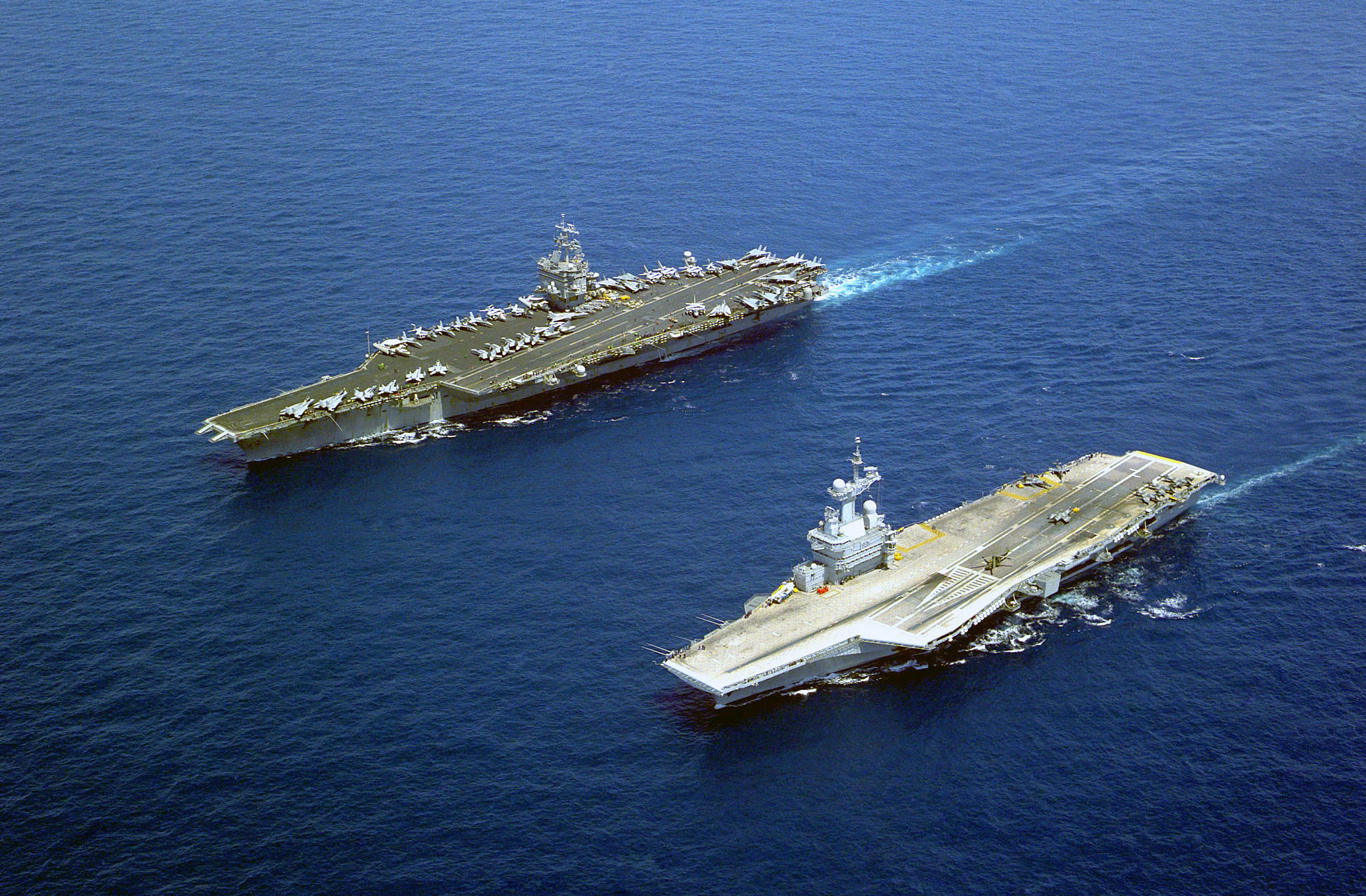 The U.S. Navy aircraft carrier USS Enterprise (CVN-65, up), the world's first nuclear-powered aircraft carrier, steams alongside the French nuclear-powered aircraft carrier Charles De Gaulle (R 91, bottom). Enterprise and her battle group were on a scheduled deployment in the Mediterranean Sea.